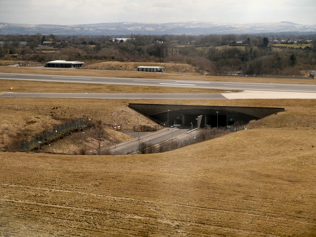 The A538 road passes under the two runways via two tunnels. A short section of the road between both the runways (and tunnels) is exposed.